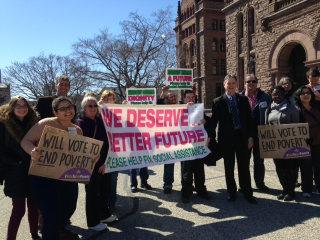 Paul rallying for the Government to pass Bill 185 along with fellow poverty reduction advocates from Hamilton, ON.